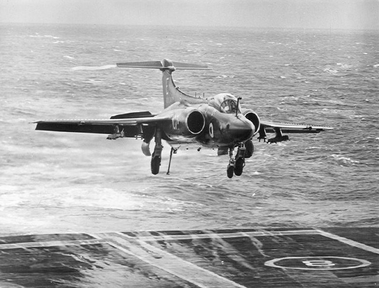 A Buccaneer landing on HMS Eagle - I think it was taken around 1971